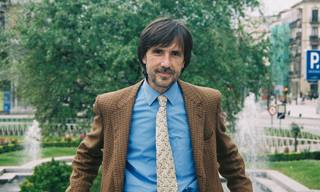 Ramon Saizarbitoria